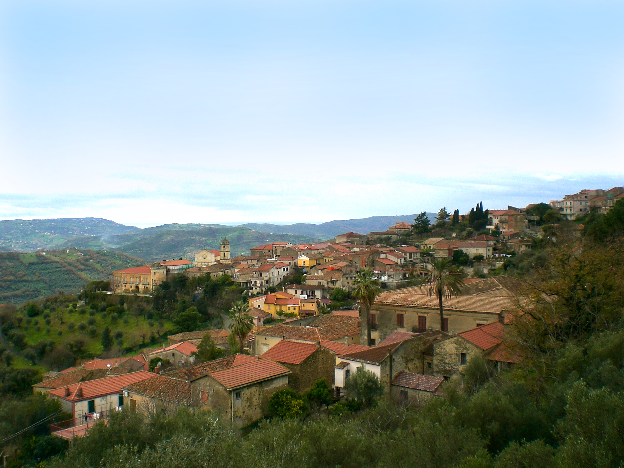 View of Ogliastro Cilento. In Cilento and Vallo di Diano National Park — in Campania.